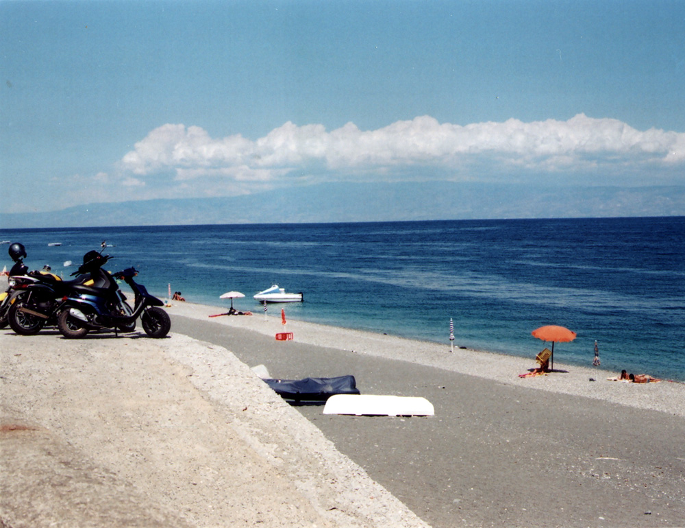 Calabria as seen from Santa Teresa di Riva, Messina, Italy